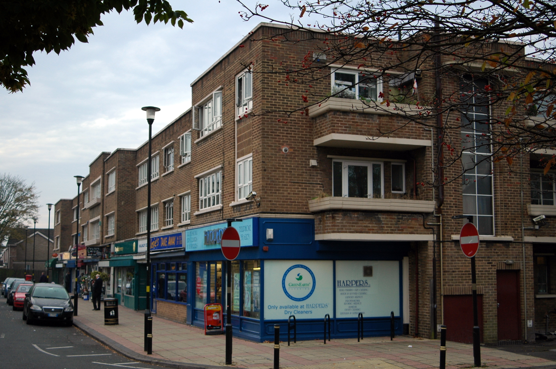 This is Walmley Court, a shopping area with flats above in Walmley village, Sutton Coldfield, Birmingham.